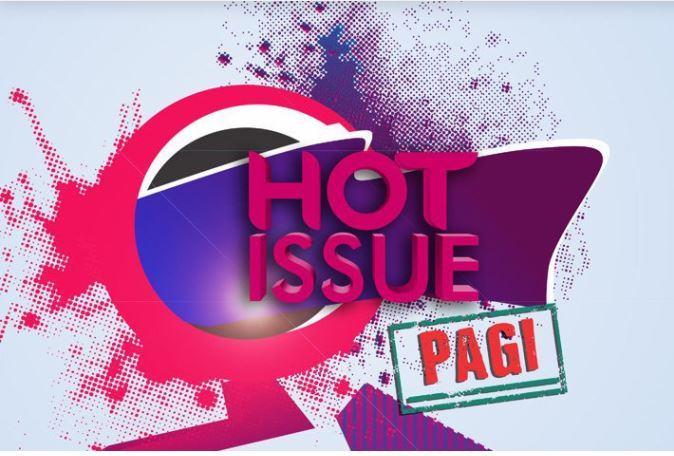 Hot Issue Pagi Logo